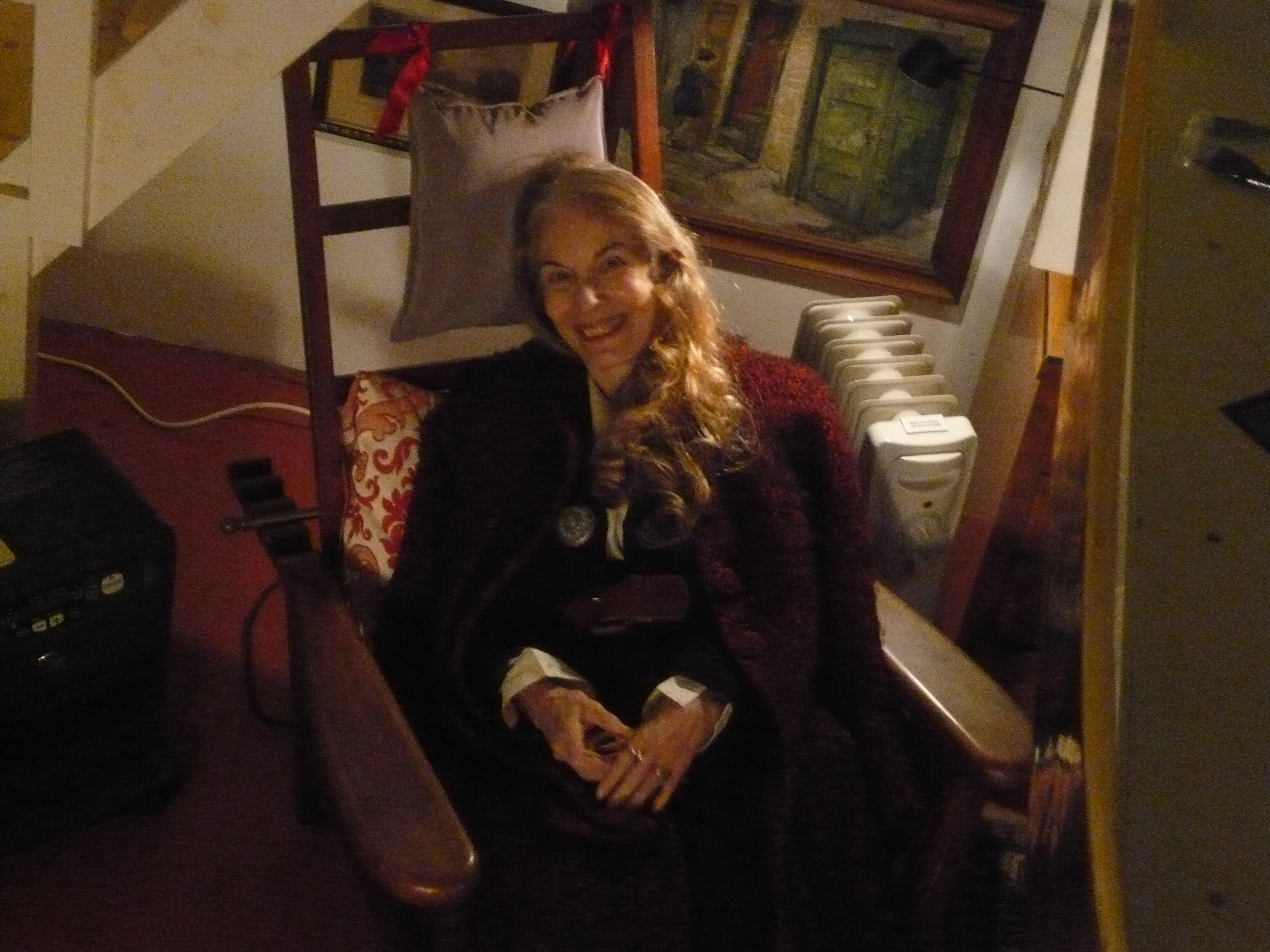 CC/domaine public